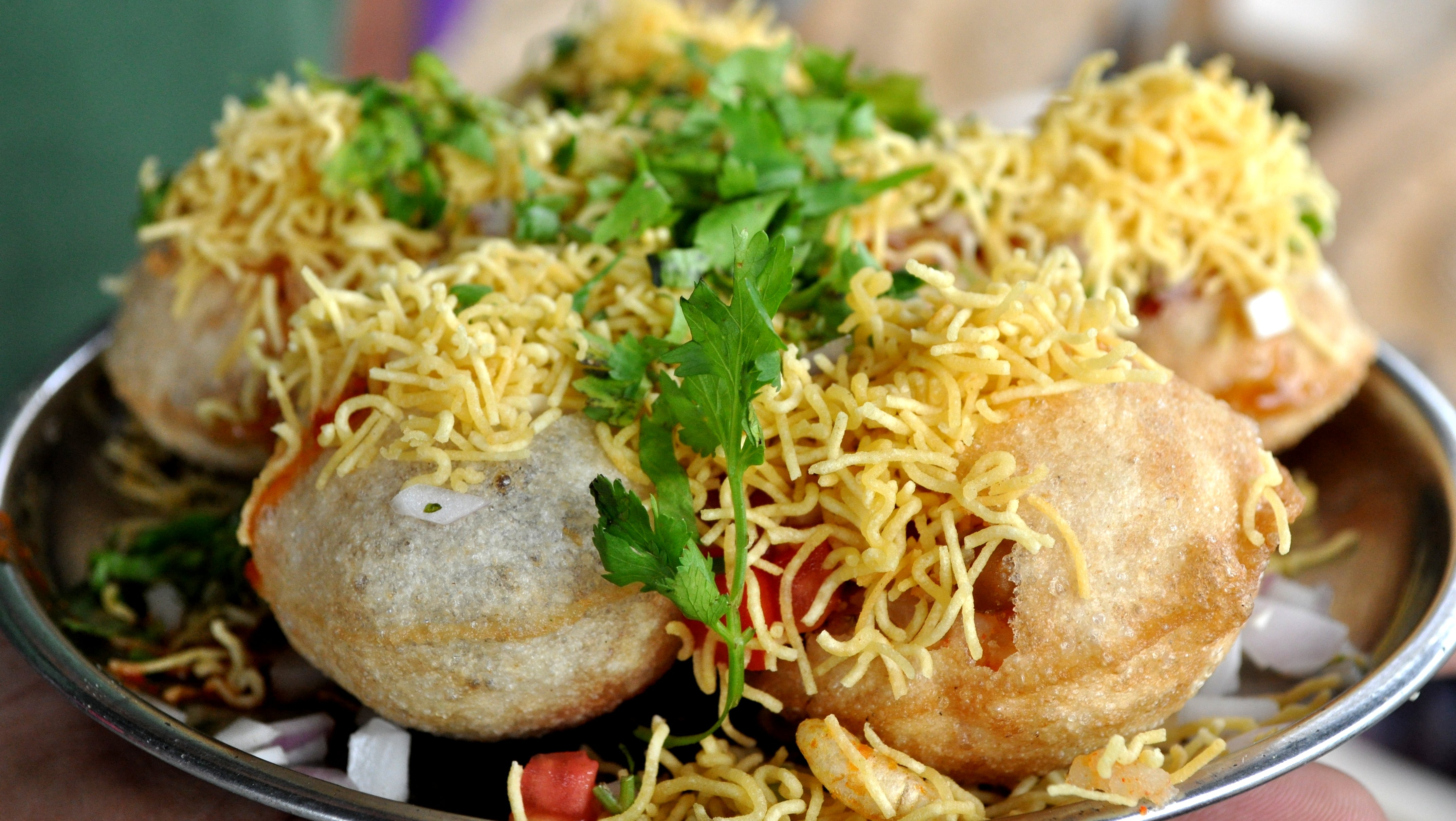 {Wiki Loves Food 2015 }